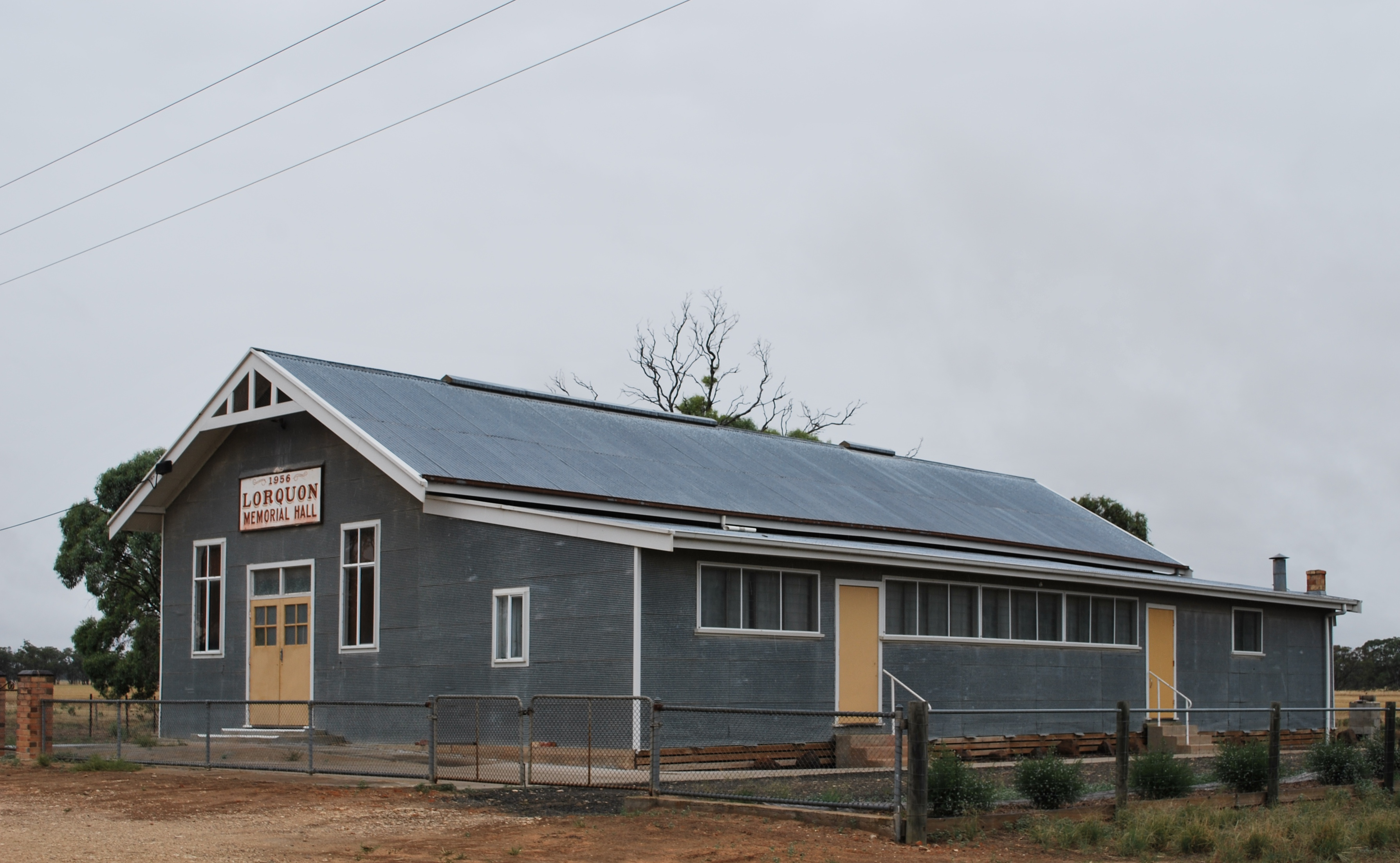 Memorial hall at Lorqoun, Victoria